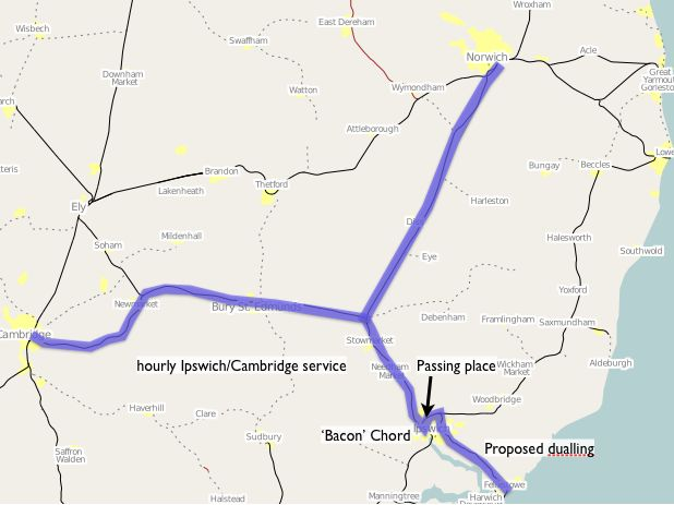 Map of Eastern section of East West Consortium rail service